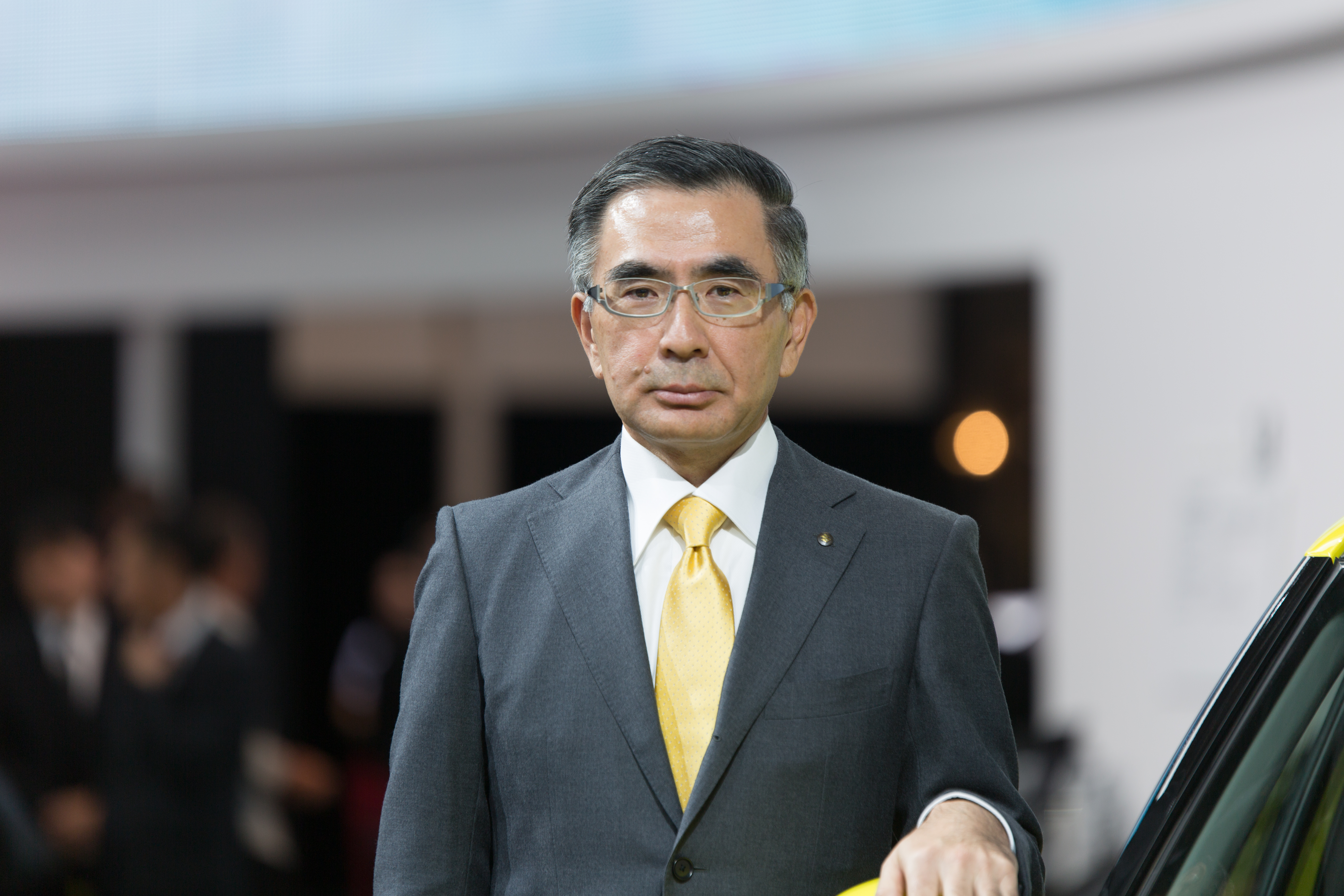 Toshihiro Suzuki at Frankfurt Auto Show IAA 2017